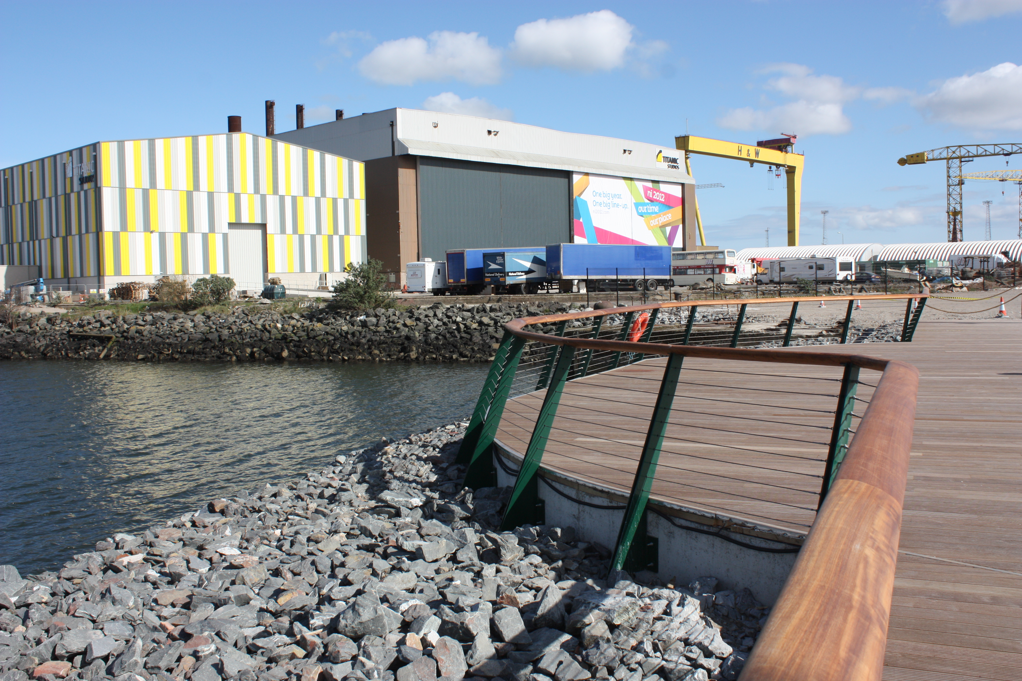 Titanic (formerly Paintshop) Studios and cranes viewed from the end of the Olympic Slipway, Opening Day at Titanic Belfast, Titanic Quarter, Queen's Road, Belfast, Northern Ireland, 31 March 2012